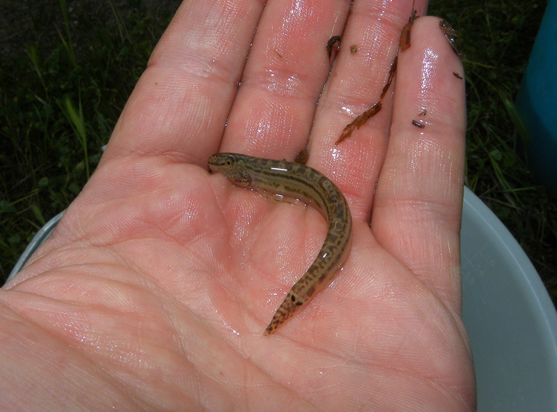 Cobitis bilineata collected in Grosseto Province (Tuscany, central Italy). Carefully released after photo. Photo by Marco Cruscanti.